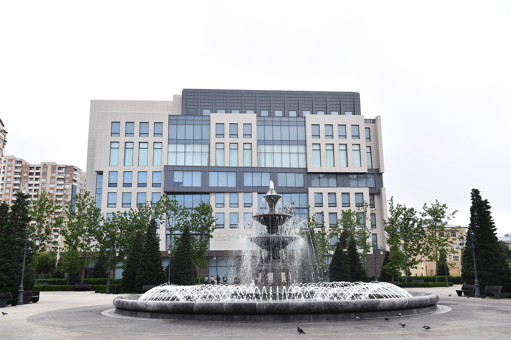 Administrative building of New Azerbaijan Party